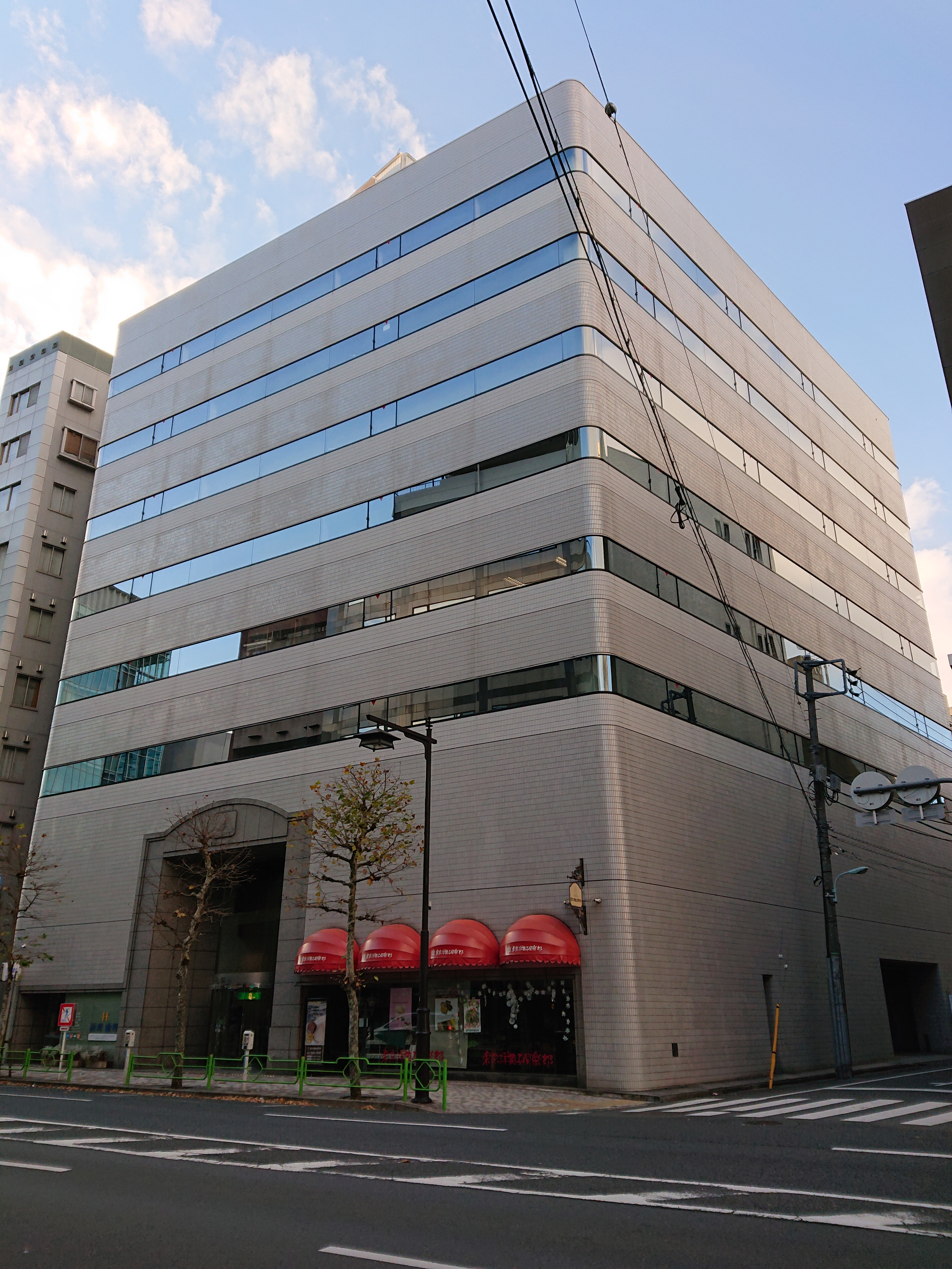 Zennikkei (全日警) headquarters, located at 1-1-12 Nihonbashi-Hamacho, Chuo, Tokyo, Japan